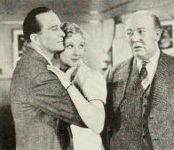 Lynne Overman, Una Merkel, and GuyKibbee in the 1937 film Don't Tell the Wife Other information for an explanation of the copyright for information regarding public domain